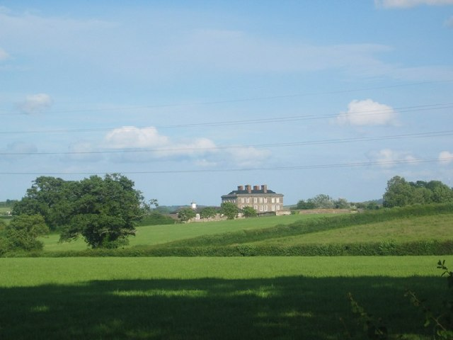 Kingston House. Fine early 18th Century House - very prominent in the landscape